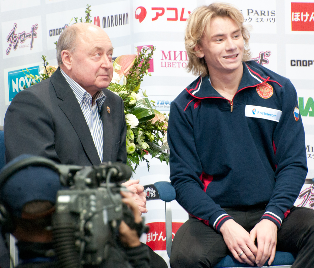 2011 Cup of Russia, short program.